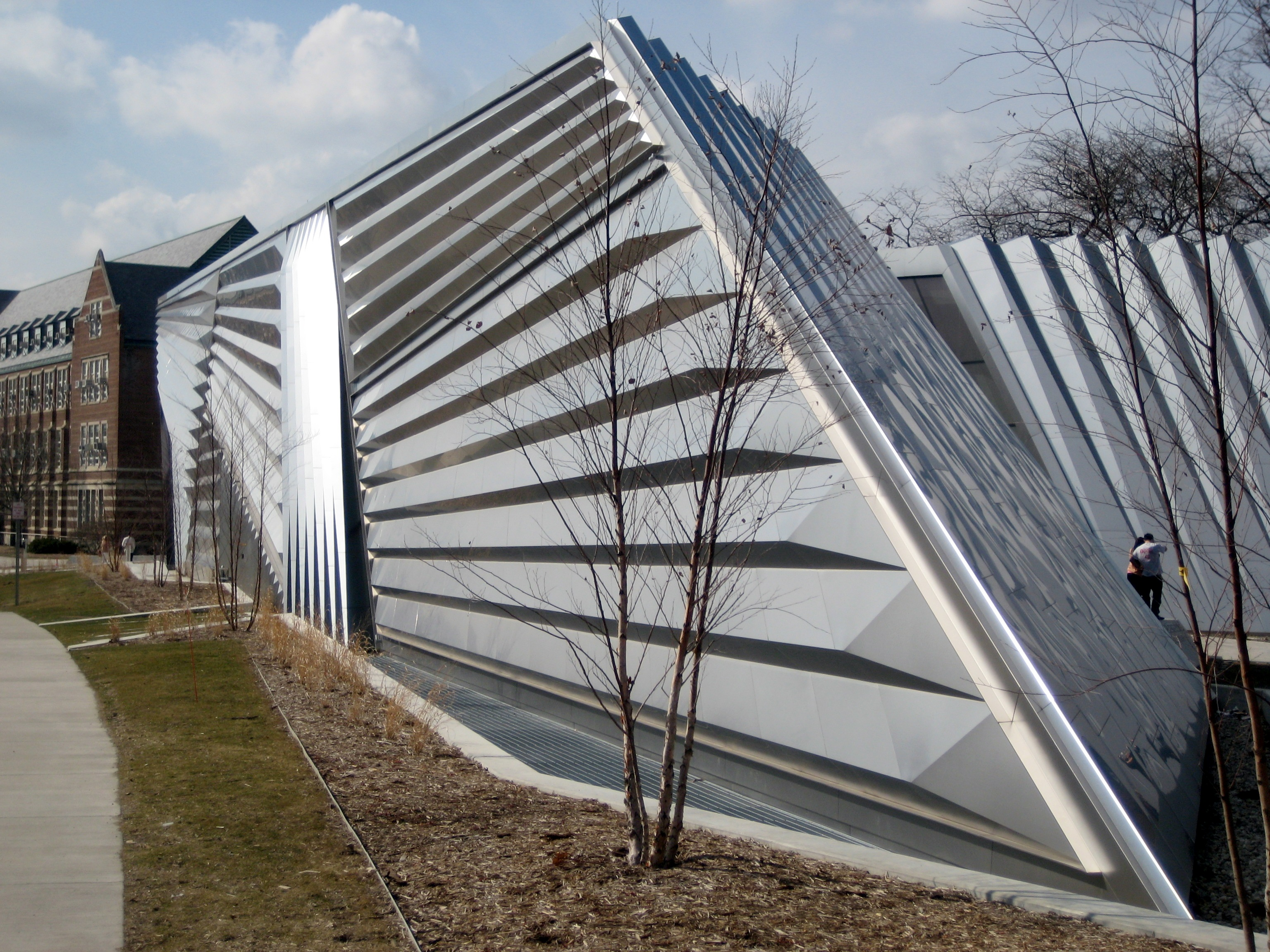 MSU Eli and Edythe Broad Art Museum -- Michigan State University, East Lansing, Michigan. View from East Circle Drive facing northwest